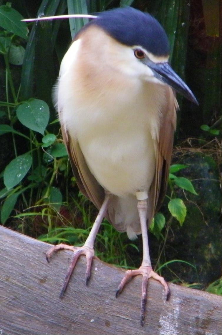 A Nankeen Night Heron at Jurong Bird Park, Singapore.